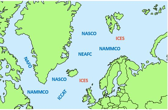 Several Regional Fishery Management Organizations have compentece in North Atlantic and Arctiv waters. This is due to their divided area of focus regarding species, areas etc.